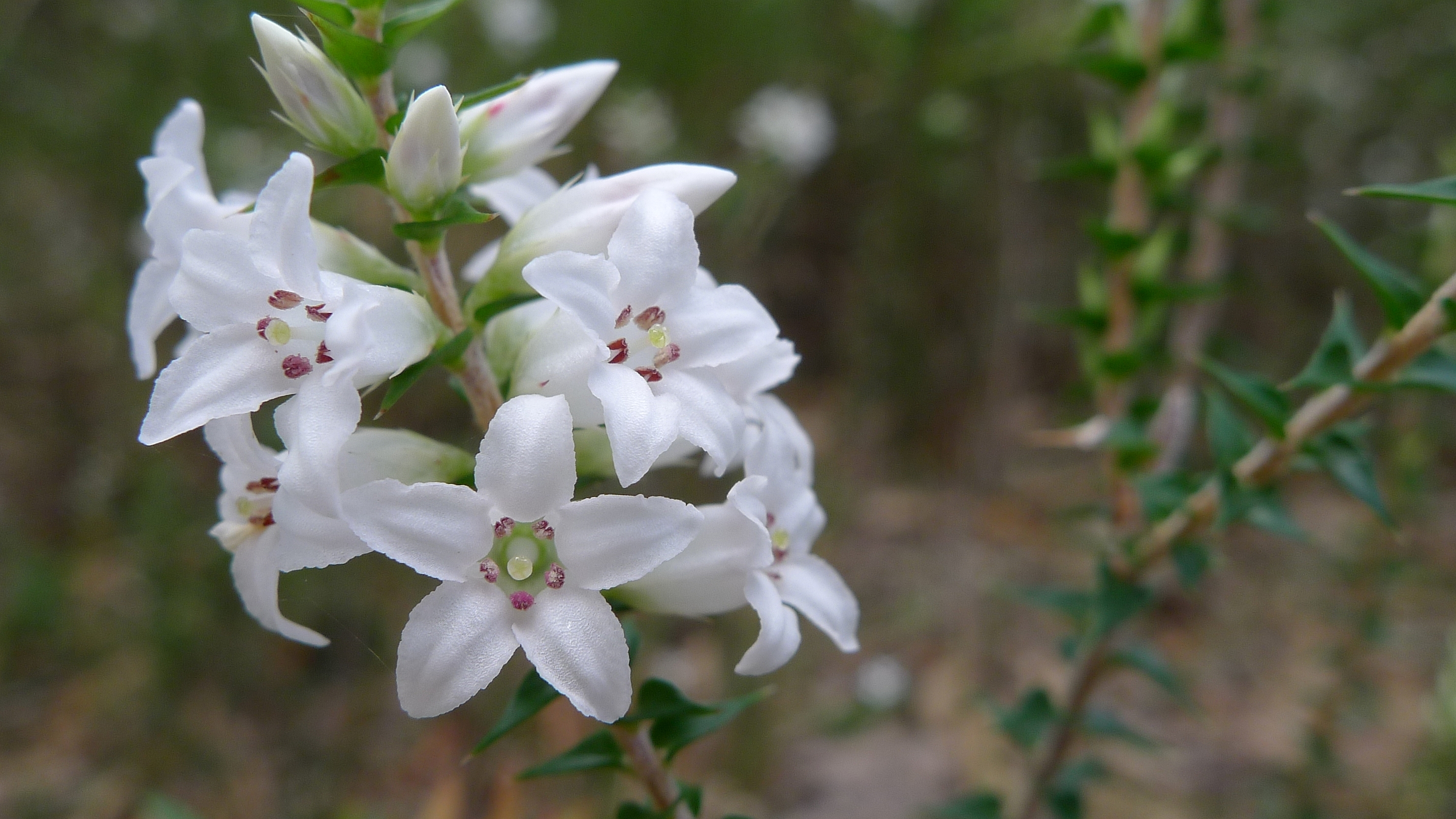 Wallum Heath, Epacris pulchella. Royal National Park, NSW Australia, March 2012.